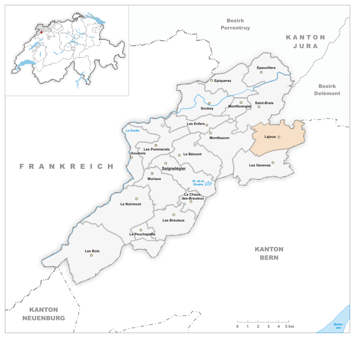 Municipality Lajoux